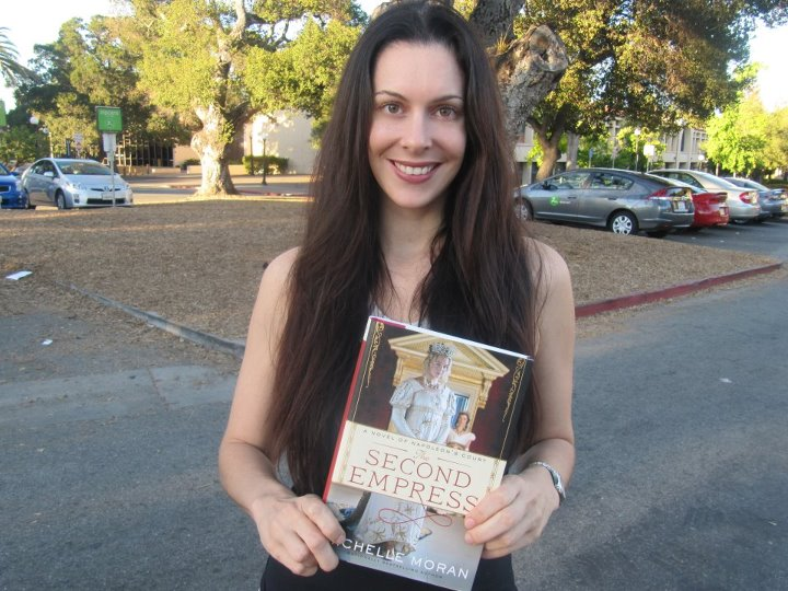 Michelle Moran with Napoleon, the subject of her fifth book